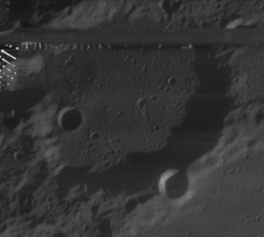 Euctemon, on the moon. Band near top and streaks in upper left are blemishes on original. Brightness and contrast adjusted slightly.